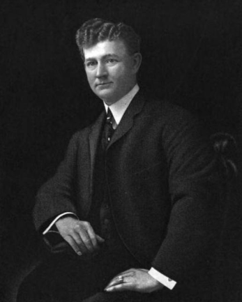 Portrait of Lester Drake from Biographical Record of Bartholomew County Indiana, 1904, page 184